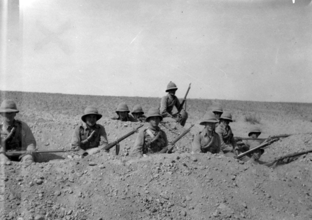 British Yeomanry in desert manoeuvres.